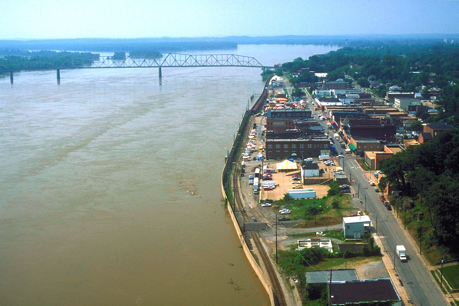 Aerial view of the waterfront section of Cape Girardeau, Missouri, USA, along the River. The picture was taken during the flood of 1993. The floowalls built by the U.S. Army Corps of Engineers are protecting the city from flooding. This picture was taken before the new bridge across the Mississippi was built in 2003.